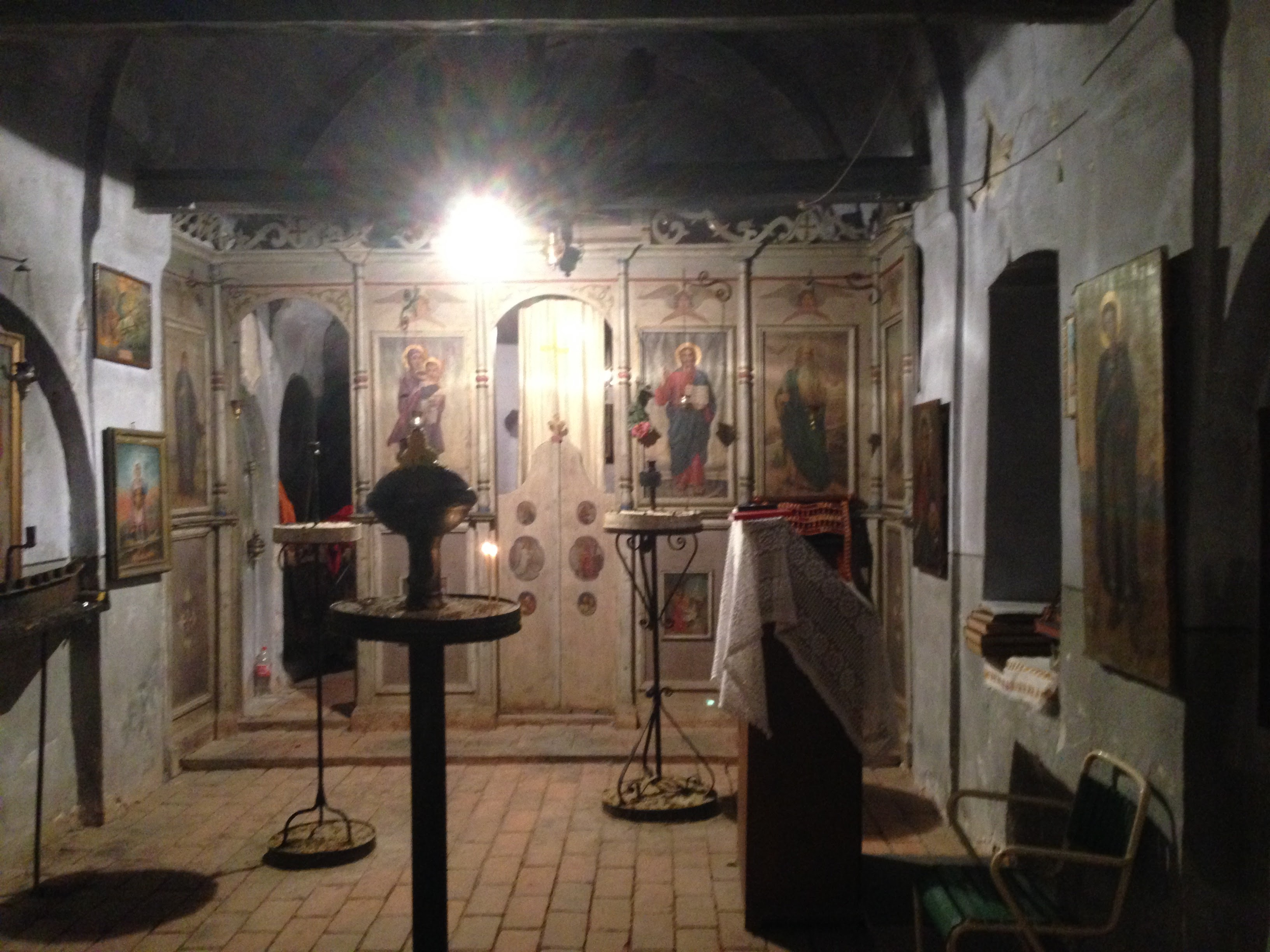 Church of St. Elijah in Sićevo, Serbia